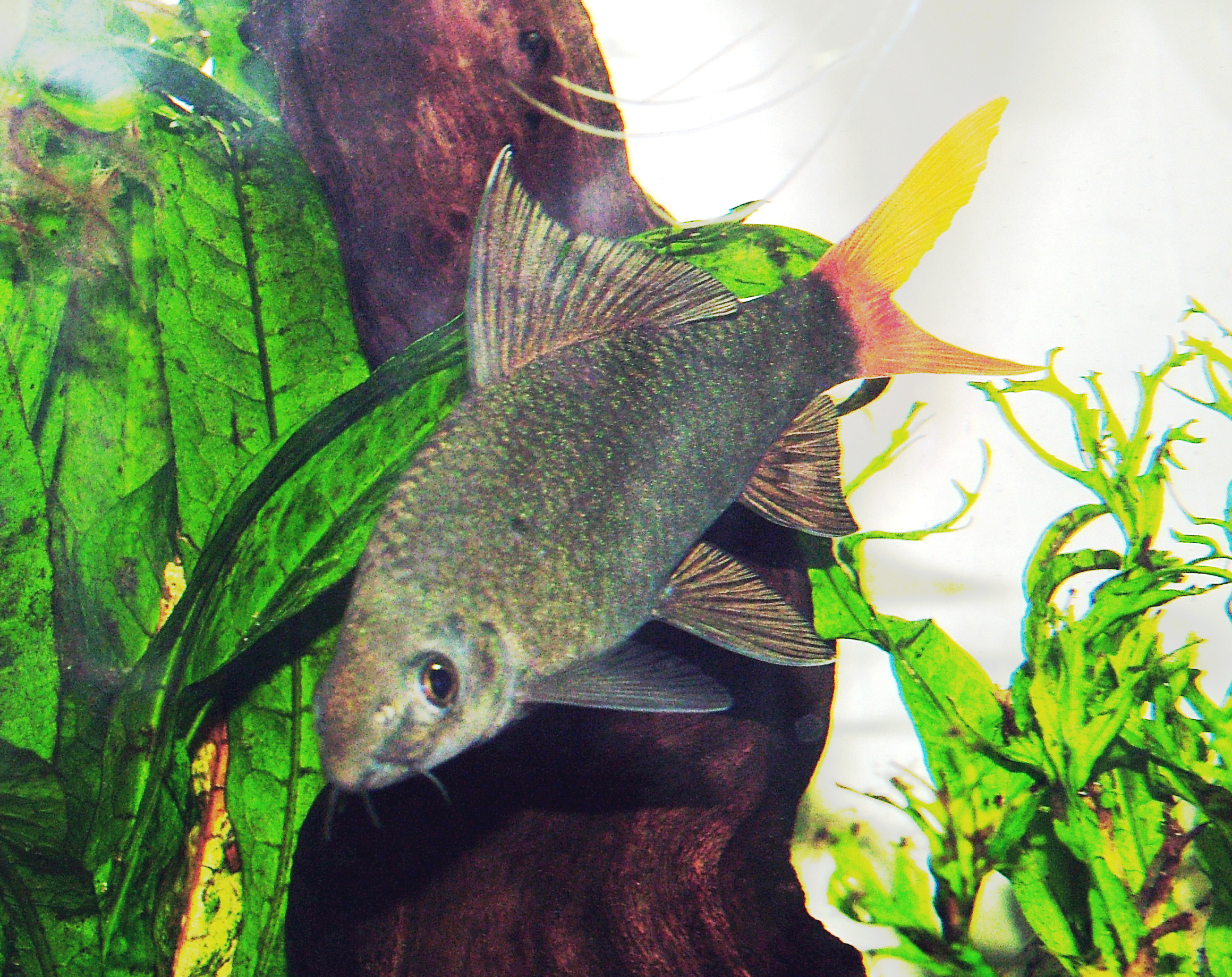 Red-tailed black shark (Epalzeorhynchos bicolor)